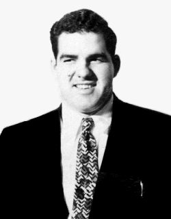 A picture of Harry K. Daghlian, Jr.